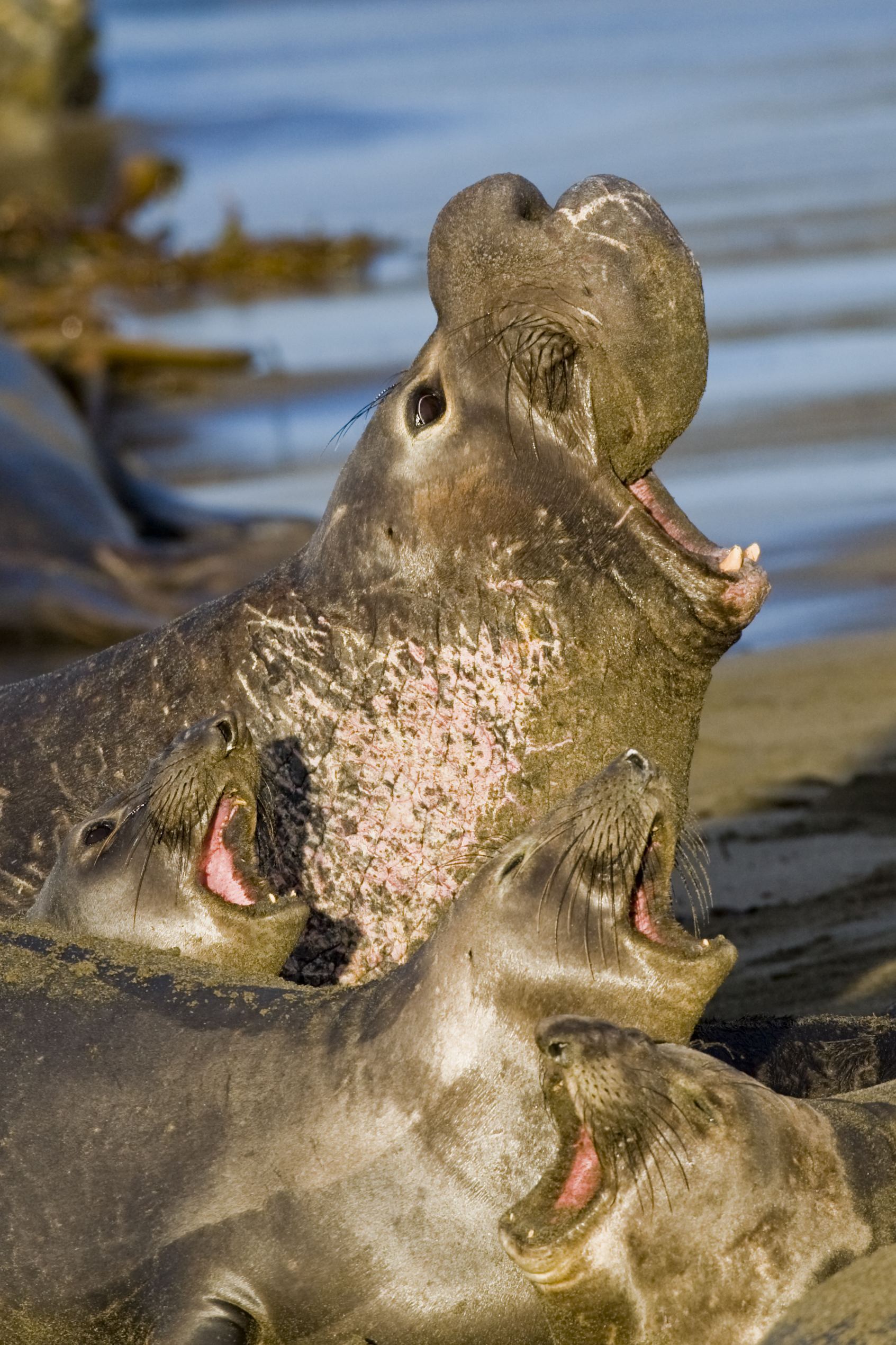 Clapmyts Seal, Piedras Blancas, San Simeon, CA 02feb2008 - photo by Michael "Mike" L. Baird Canon 1D Mark III w/ 600mm f/4 IS lens on tripod